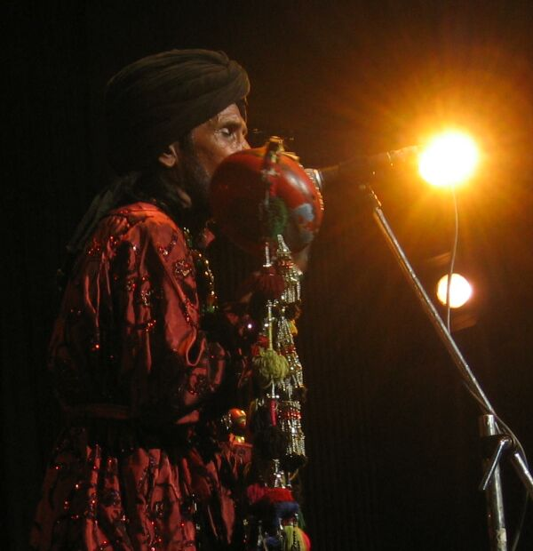 Pakistani Sufi singer Sain Zahoor singing in traditional Sufi dress (richly embroidered kurta). His musical instrument is the ektara (three-stringed variety); the round ball near his face is the resonance chamber of the ektara, usually made from a gourd shell. The tassels on the instrument fly as Sufi musicians whirl in musical trance. Photo from the Hungry Hearts Festival, India Habitat Centre, New Delhi on 2007-05-06.